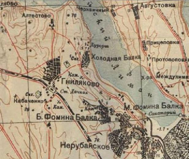 Karta